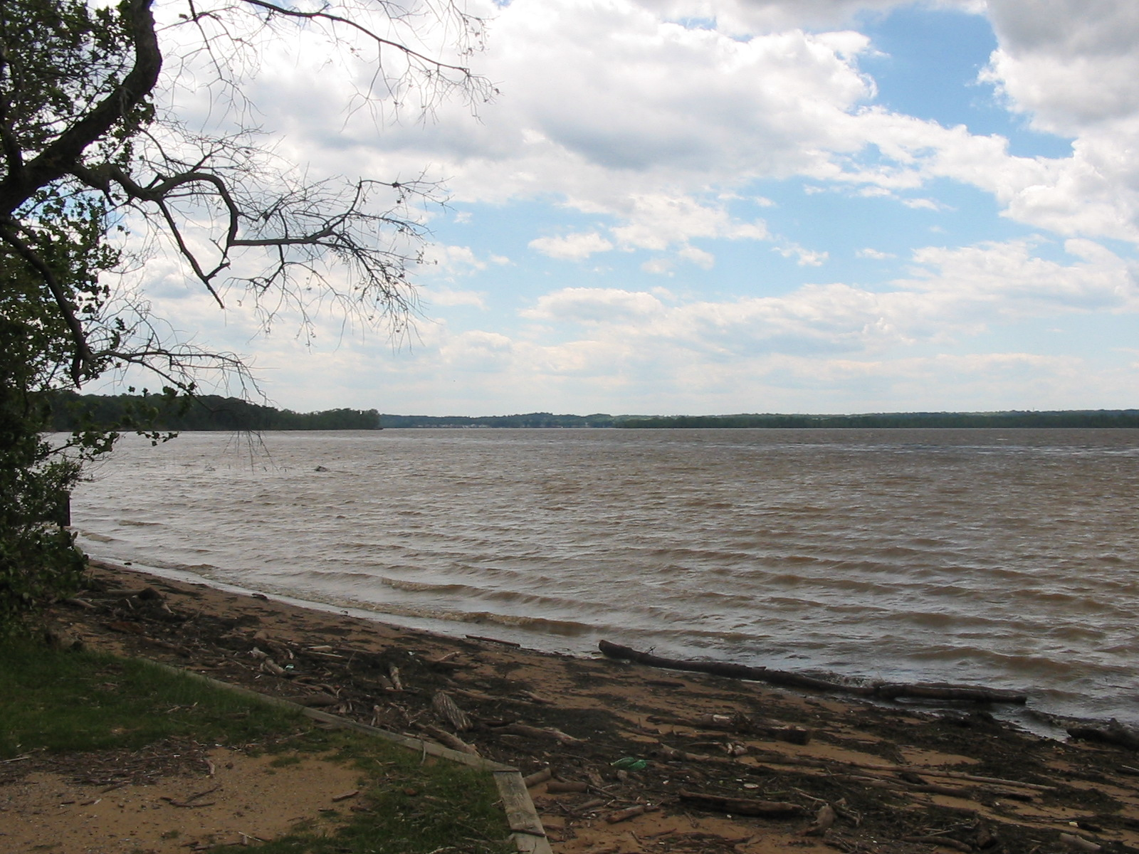 Belmont Bay